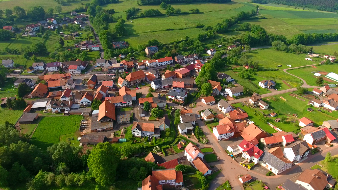 Luftansicht Wahlshausen